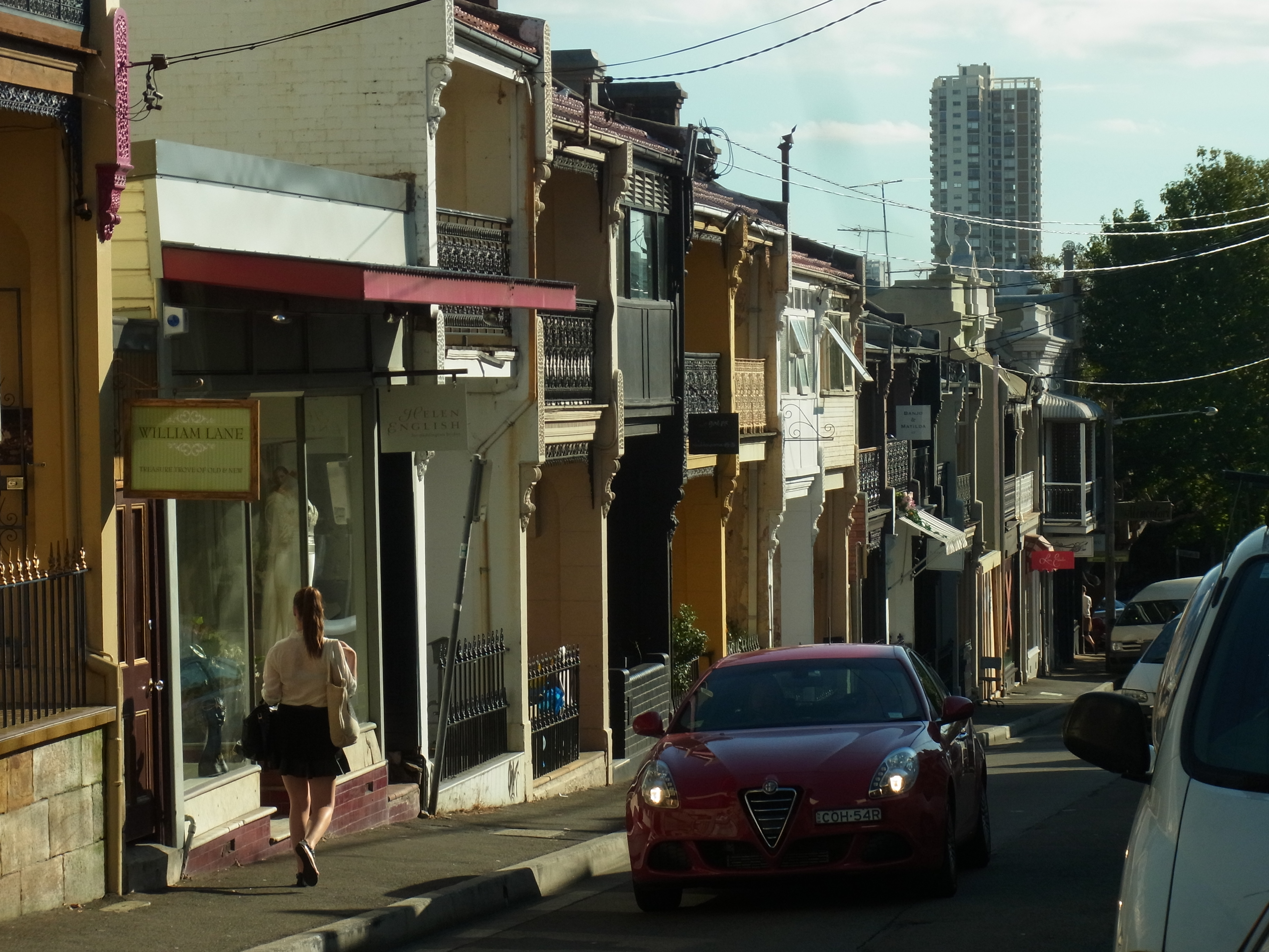 street scene